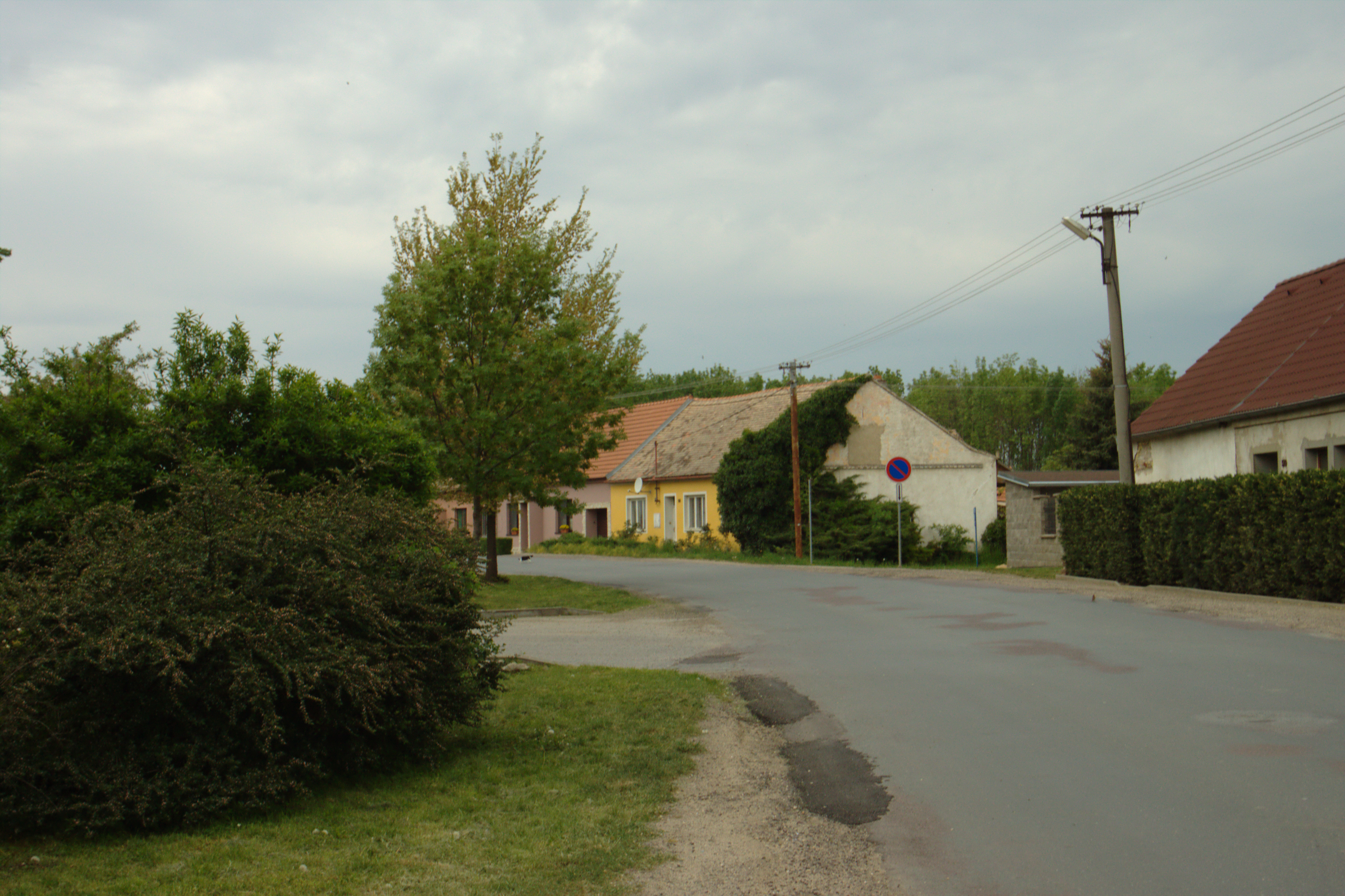 A turn in the village of Čejkovice, South Moravian Region, CZ